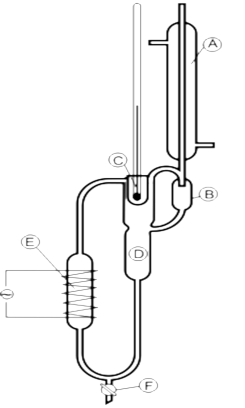 Ebuliometer. A) reflux condenser, B) dropper, C) thermometer socket, D) bulb, E) heating compartment with heating coil, F) draining valve